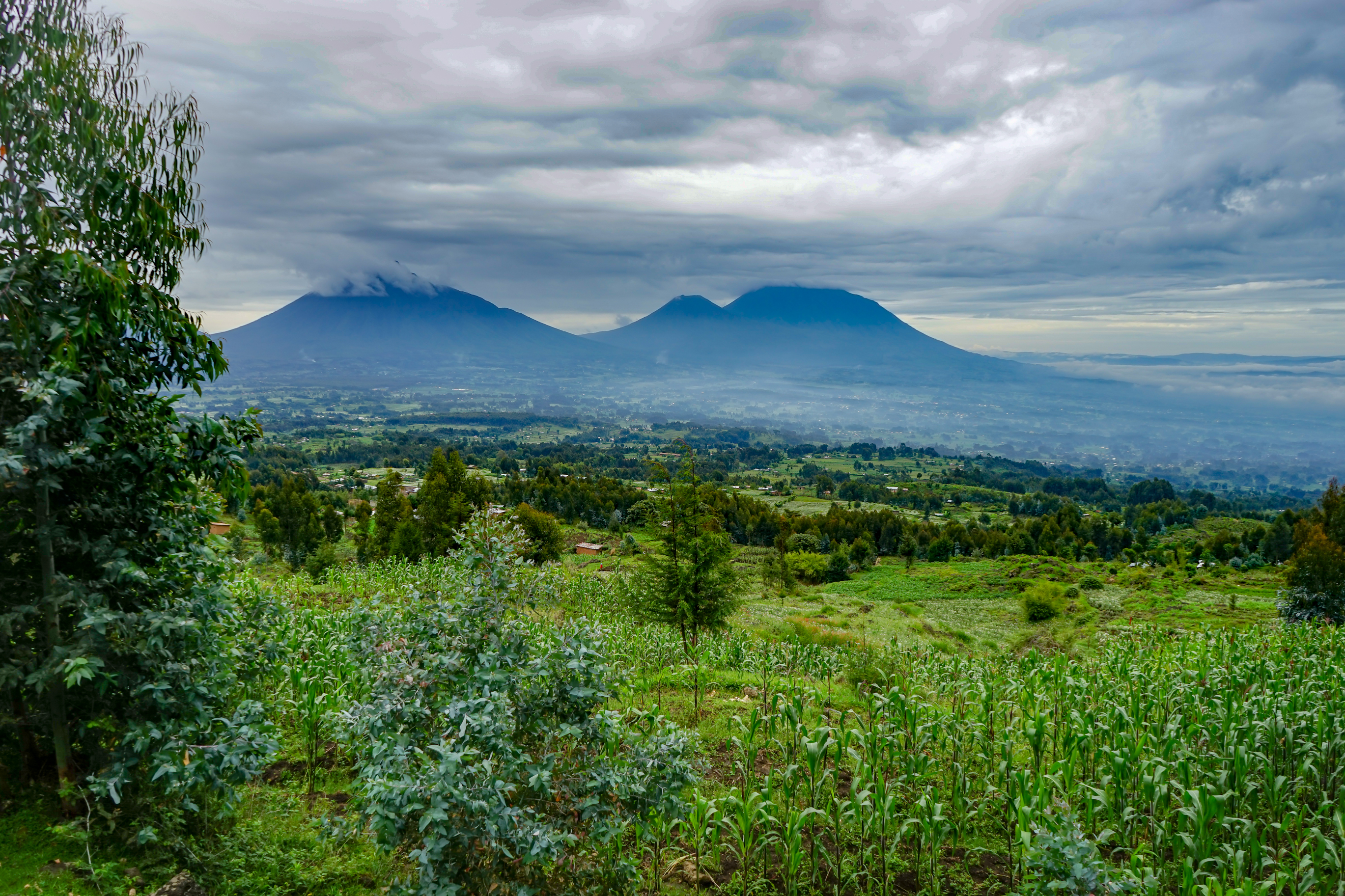 Volcanoes National Park Rwanda